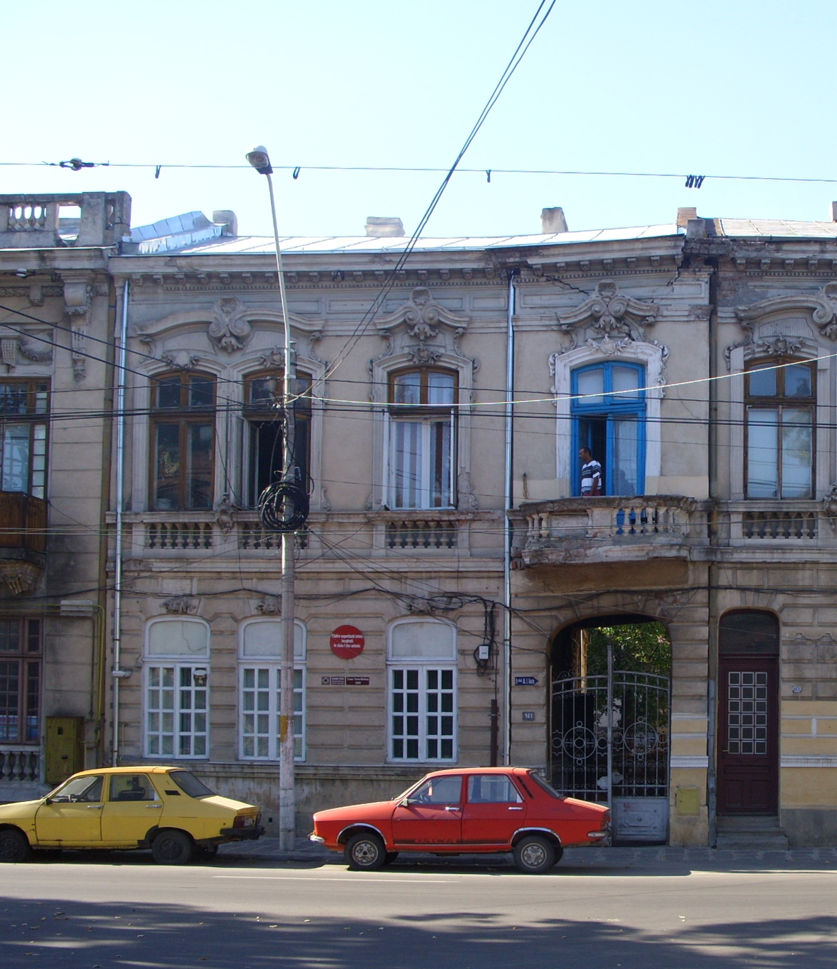 Tane-Babeș House - BrăilaRomână: Tane-Babeș Ház- Brăila